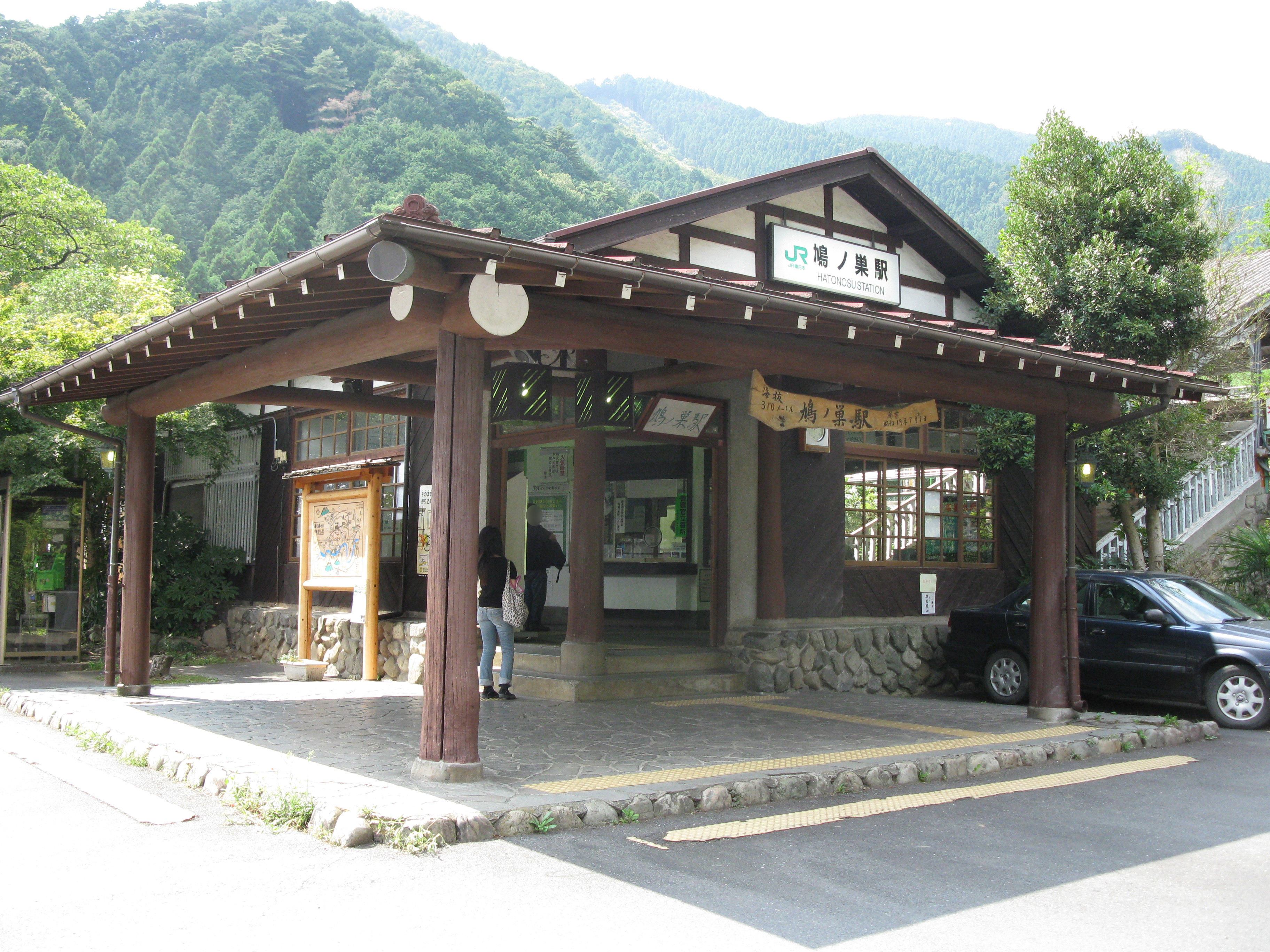 Hatonosu Station building (East Japan Railway Ōme Line)